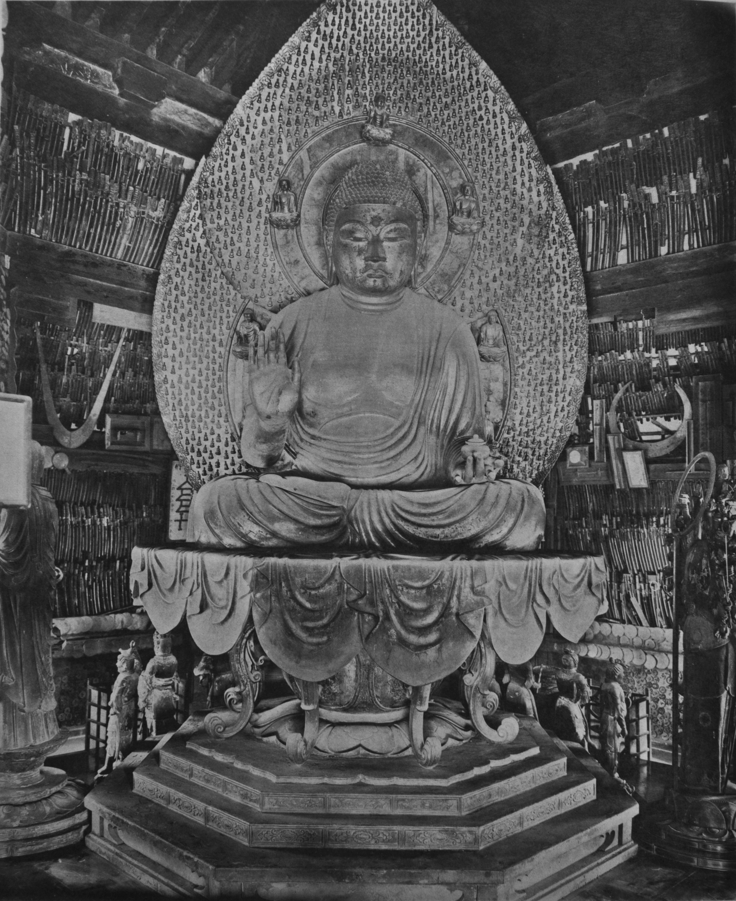 Yakushi Nyorai (National Treasure), Sai-endō, Hōryū-ji, Nara Prefecture, Japan